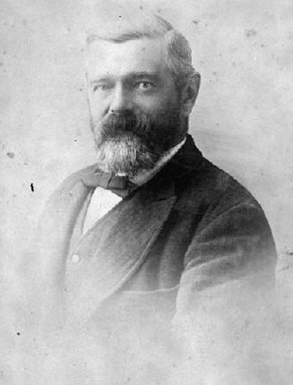 Samuel Brown, Mayor of Wellington.